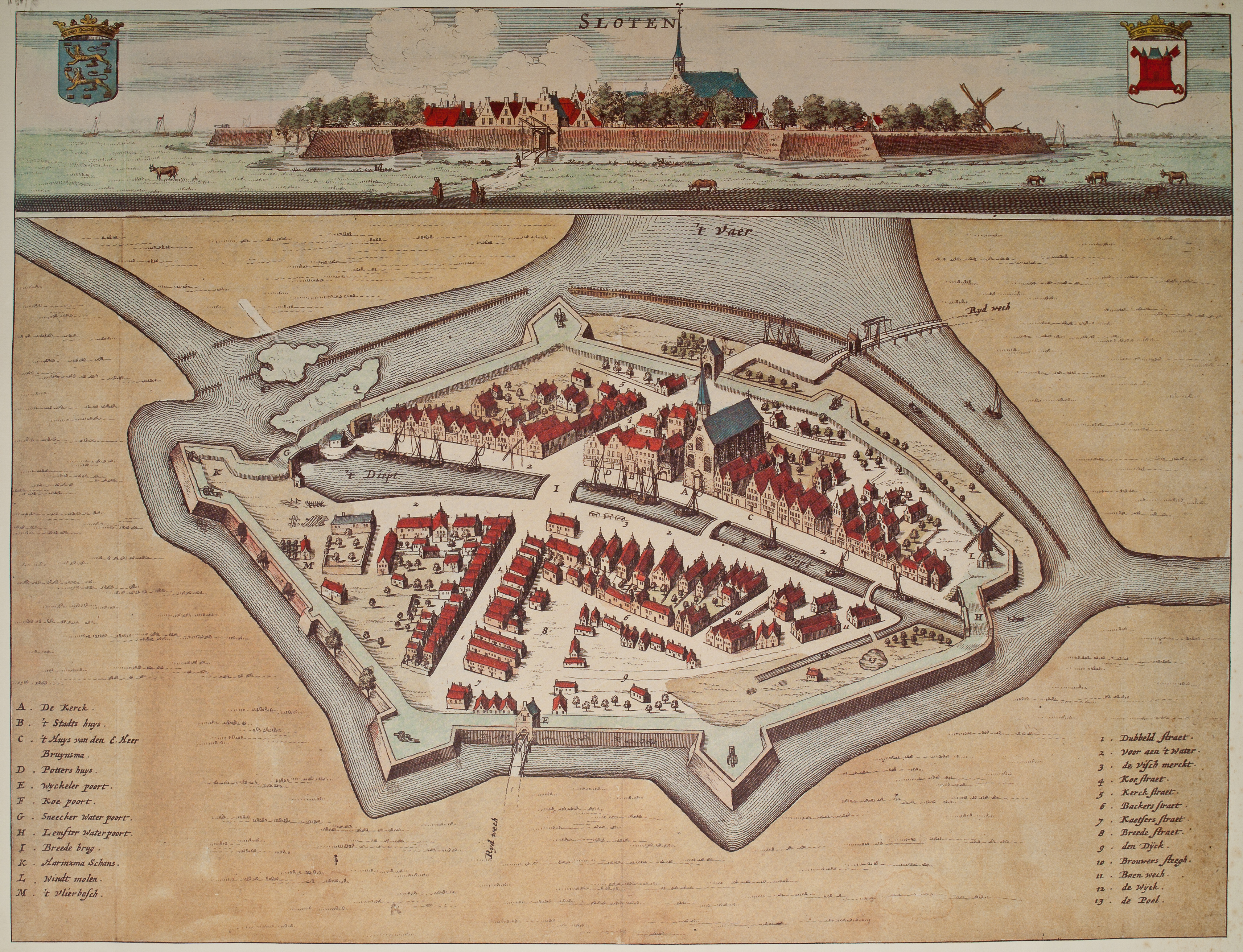 Elf reproducties van Friese stadsplattegronden uit de Beschrijving van Heerlijkheydt van Friesland door Bernardus Schotanus a Sterringa uitgegeven in 1664 Bolswaert